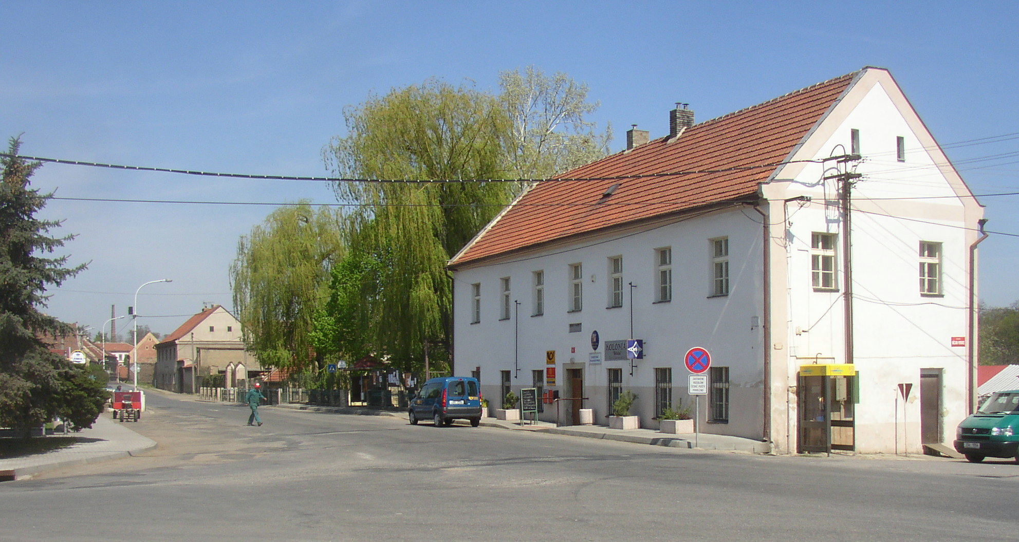 Municipal office, library and post office building in centre of Stehelčeves, Czech Republic.